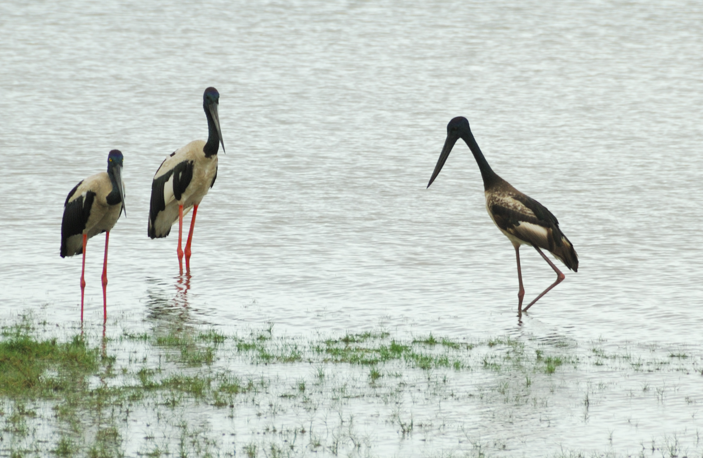 Ephippiorhynchus asiaticus Black-Necked Storks at Cairns Esplanade.